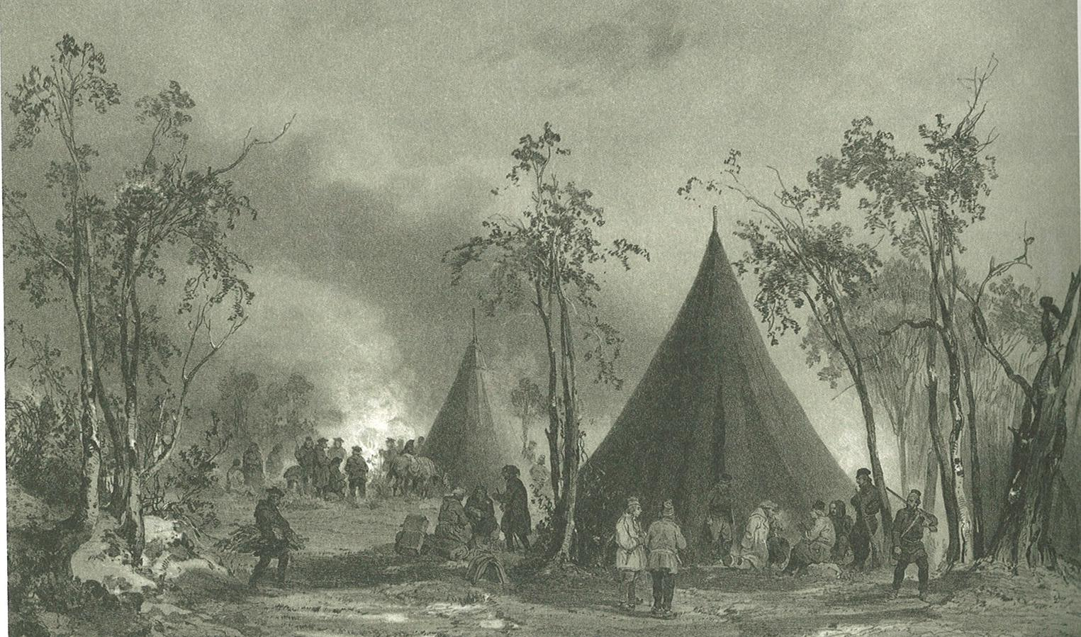 Karasjok, Reserche-expedition